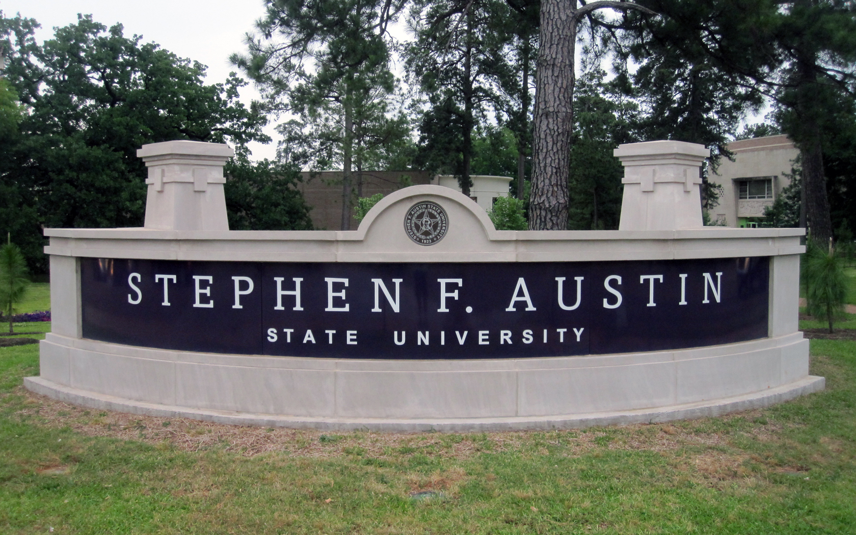 I took photo with Canon camera.